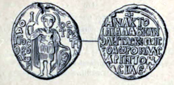 Seal of the Emperor of Nicaea, Theodore II Laskaris